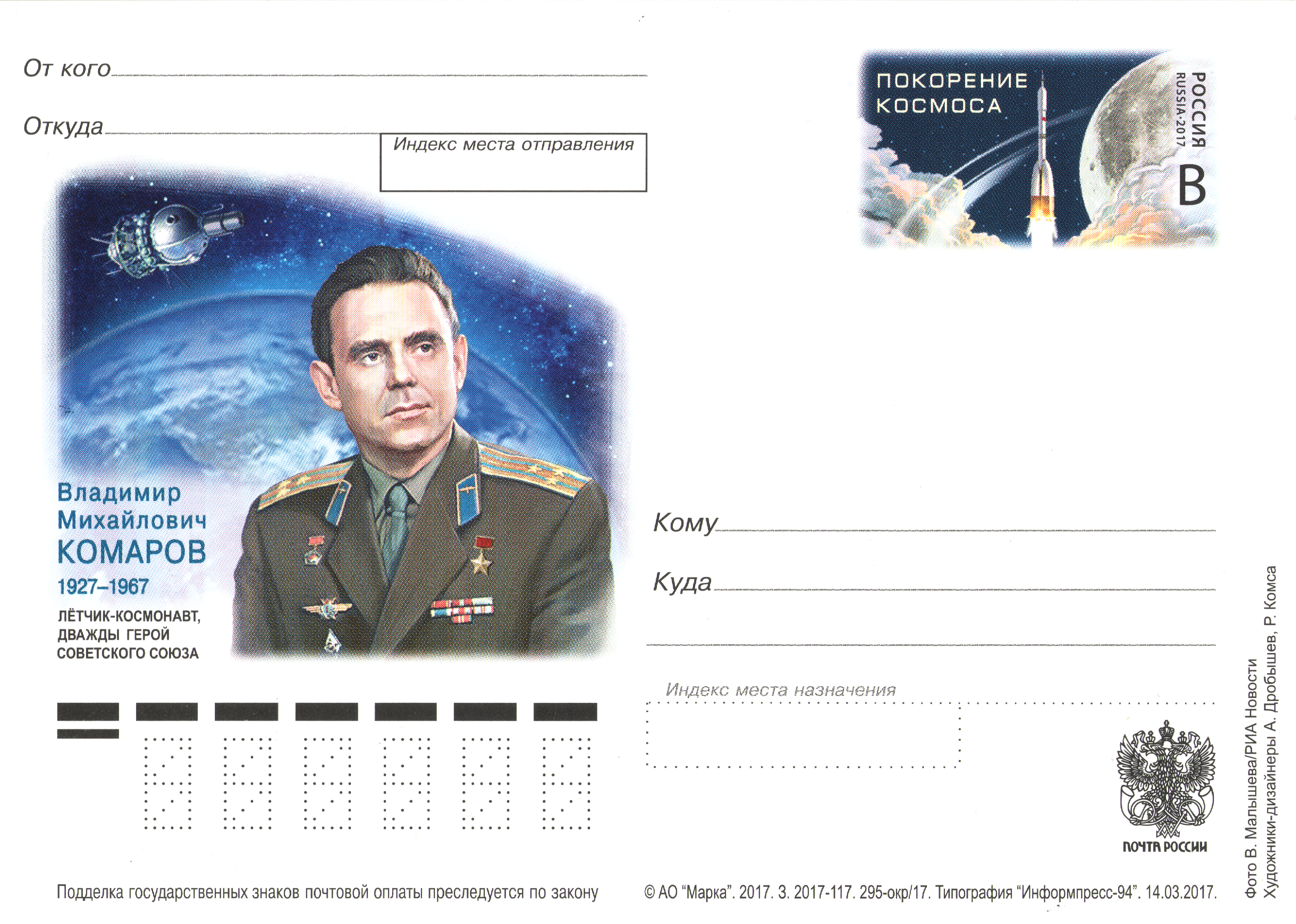 Russian postal card of Vladimir Mihailovich Komarov with the Space Exploration B stamp.